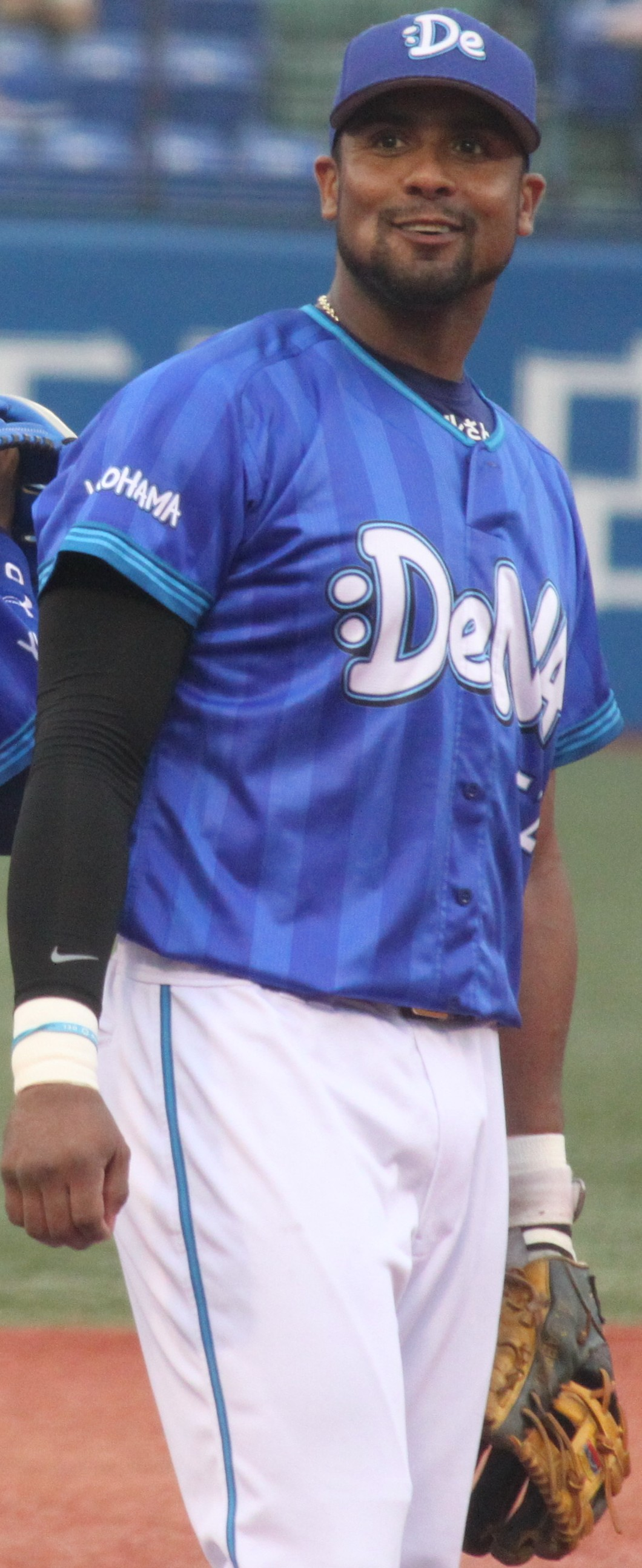 Aarom Baldiris, infielder of the Yokohama DeNA BayStars, at Meiji Jingu Stadium.